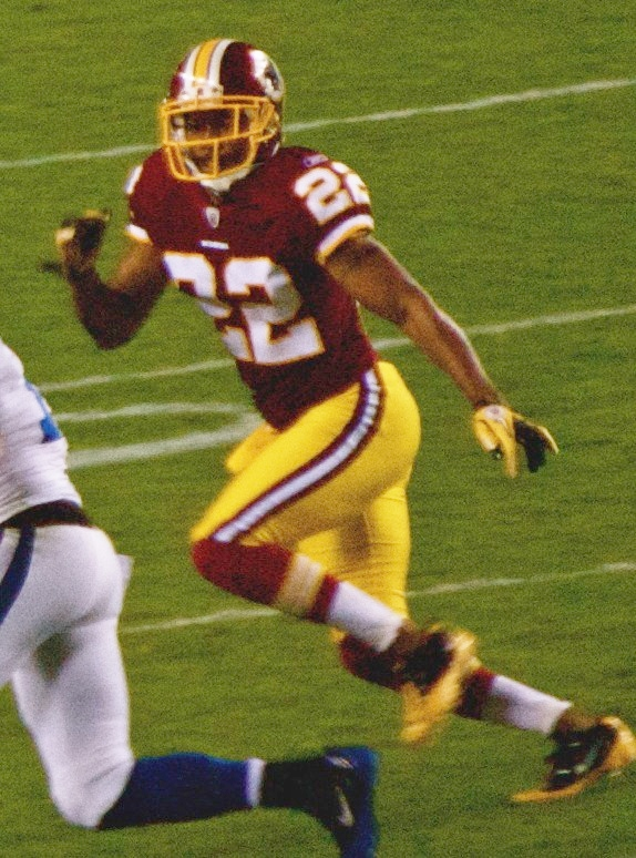 Carlos Rogers playing against the Indianapolis Colts on October 17, 2010.